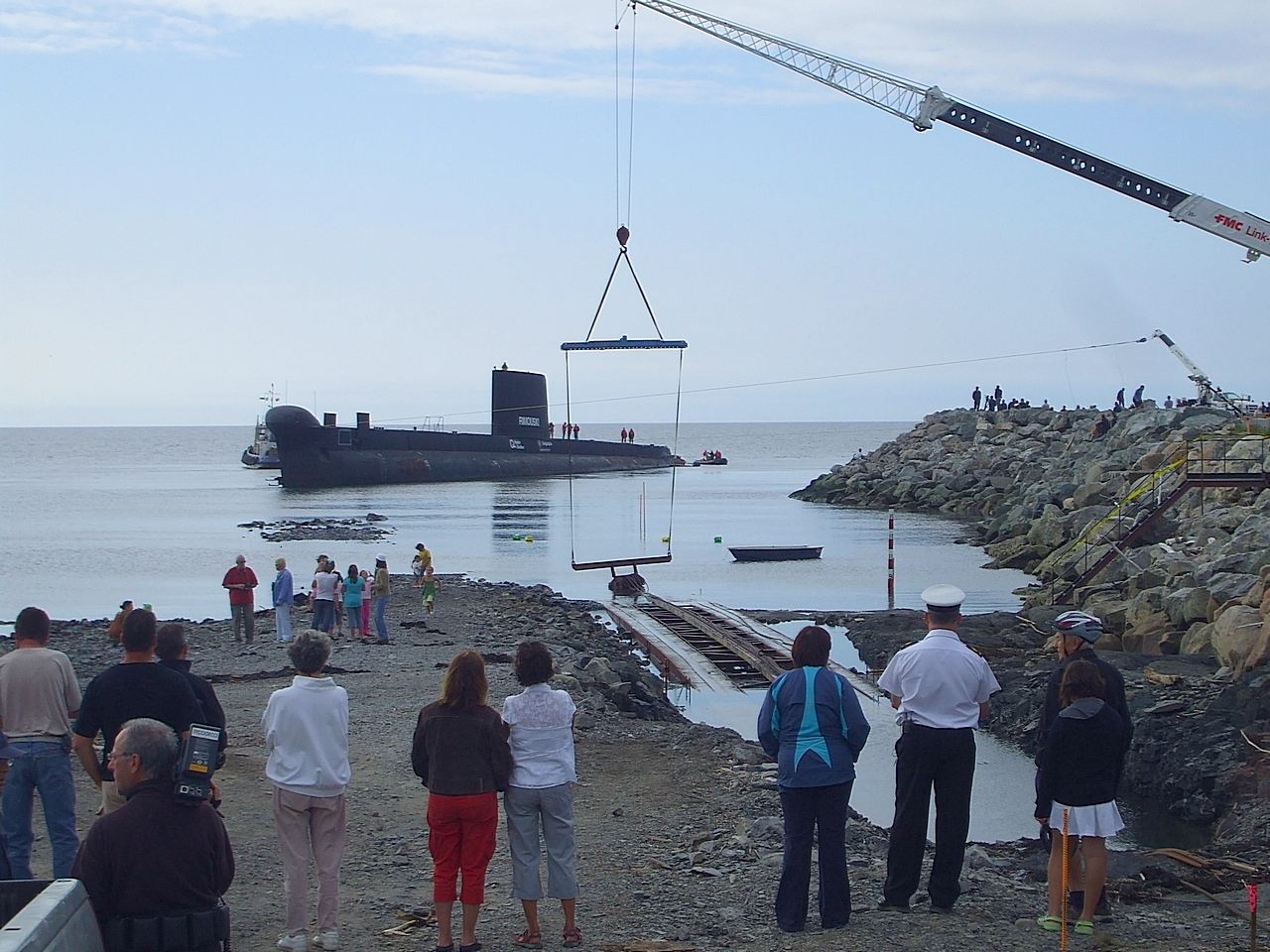 NCSM Onondaga, Class Oberon, to Pointe-au-Père en 2008, Qc, Canada.